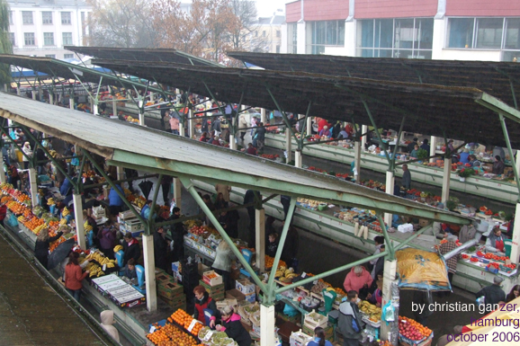 The so called Kolkhos market in the center of Brest (Belarus)